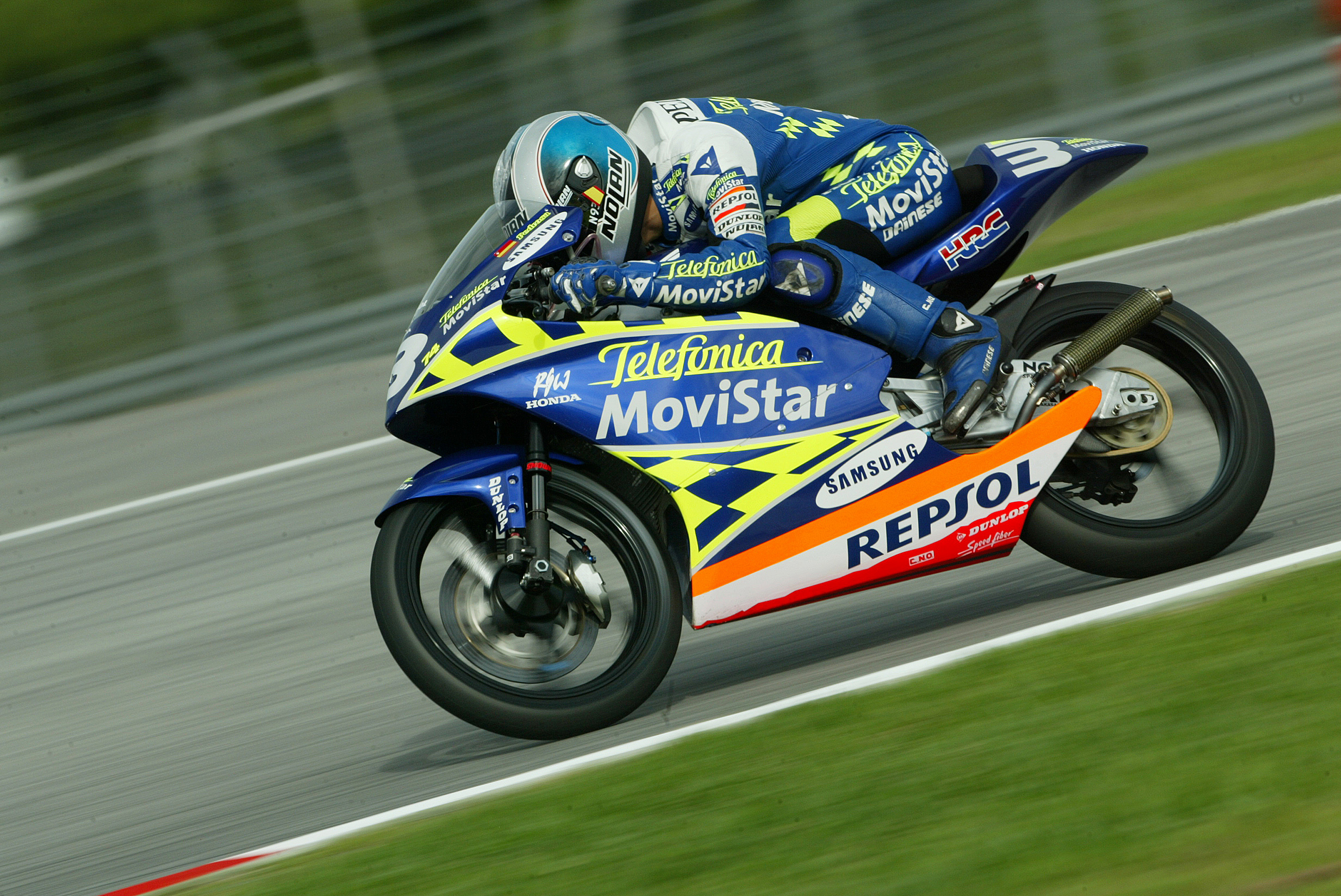 Dani Pedrosa, riding his 125cc Telefónica Movistar Honda at the 2003 Malaysian Grand Prix.